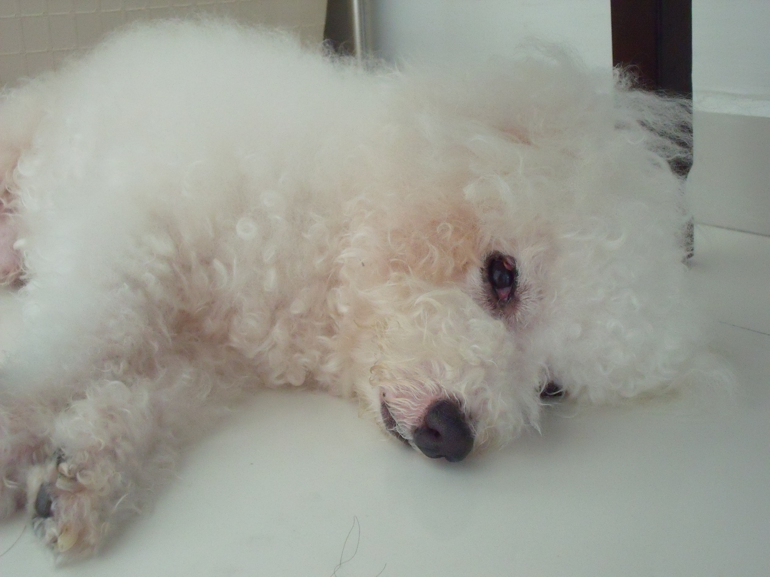 Cotton, the cutest Bichon Frise